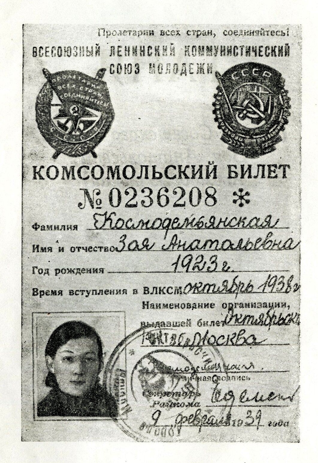 Komsomol membership card Zoya Kozmodemyanskaya